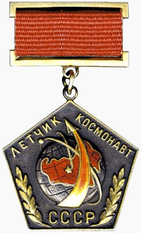 Pilot-Cosmonaut of the USSR badge